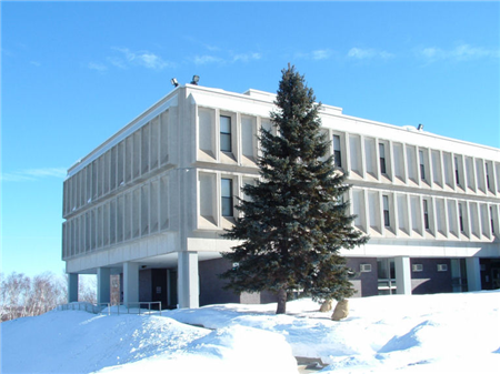 Huntington University